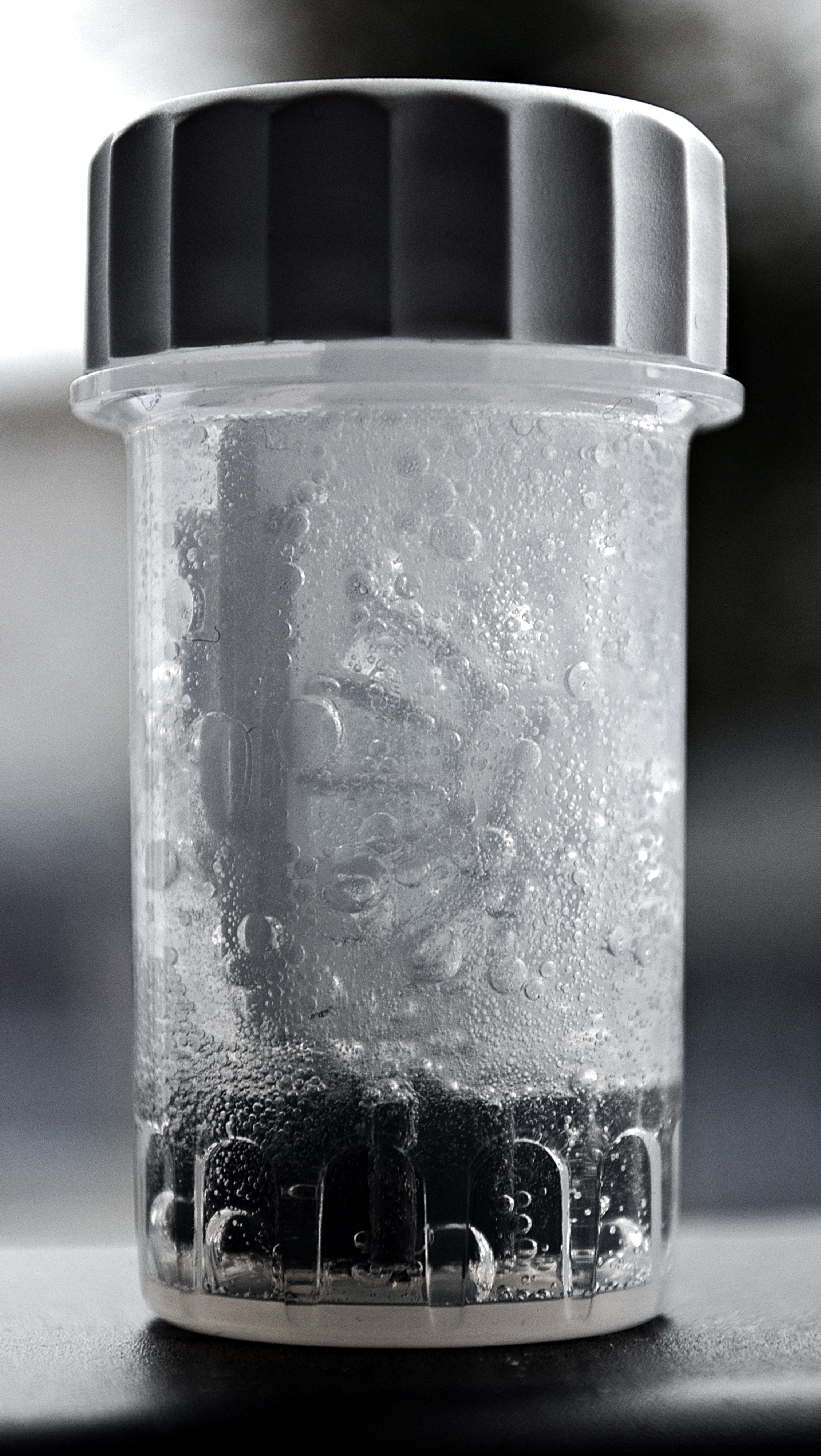 Contact lens case designed for use with a "one-step" hydrogen peroxide-based solution and the bubbles produced. This includes a catalytic disc at the bottom to neutralise the peroxide over time. (This is from a CooperVision "Refine One Step" preservative-free peroxide solution kit.).